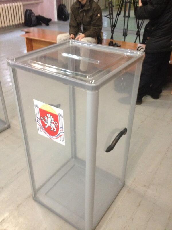 Voting just opened, Crimean referendum, 2014